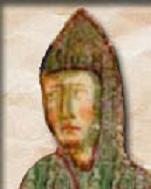 picture of Widukind of Corvey